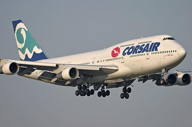 Description: Corsair Boeing 747 F-GSEX Photographer/illustrator: Philippe Noret - AirTeamimages Uploader: Eyone Note: authorisation of Philippe Noret sent to - Thanks to him